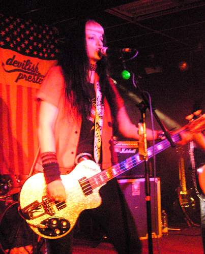 Jacqui Vixen bass player and singer with Devilish Presley.